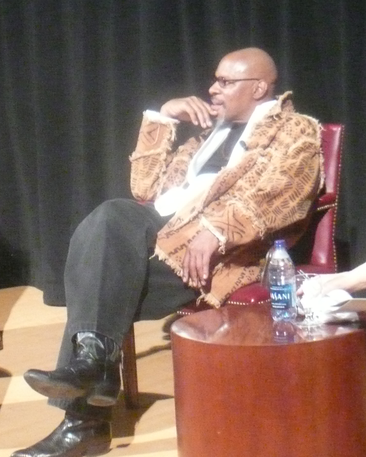 Avery Brooks at the Star Trek/Race conference in Philadelphia in 2009.